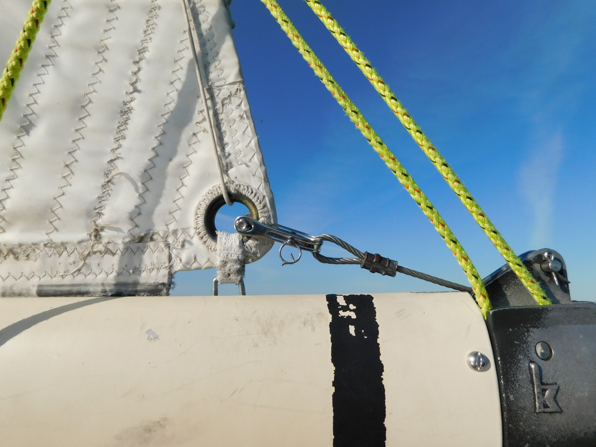 An outhaul on a US Yachts US 22 sailboat anmed Vesper.